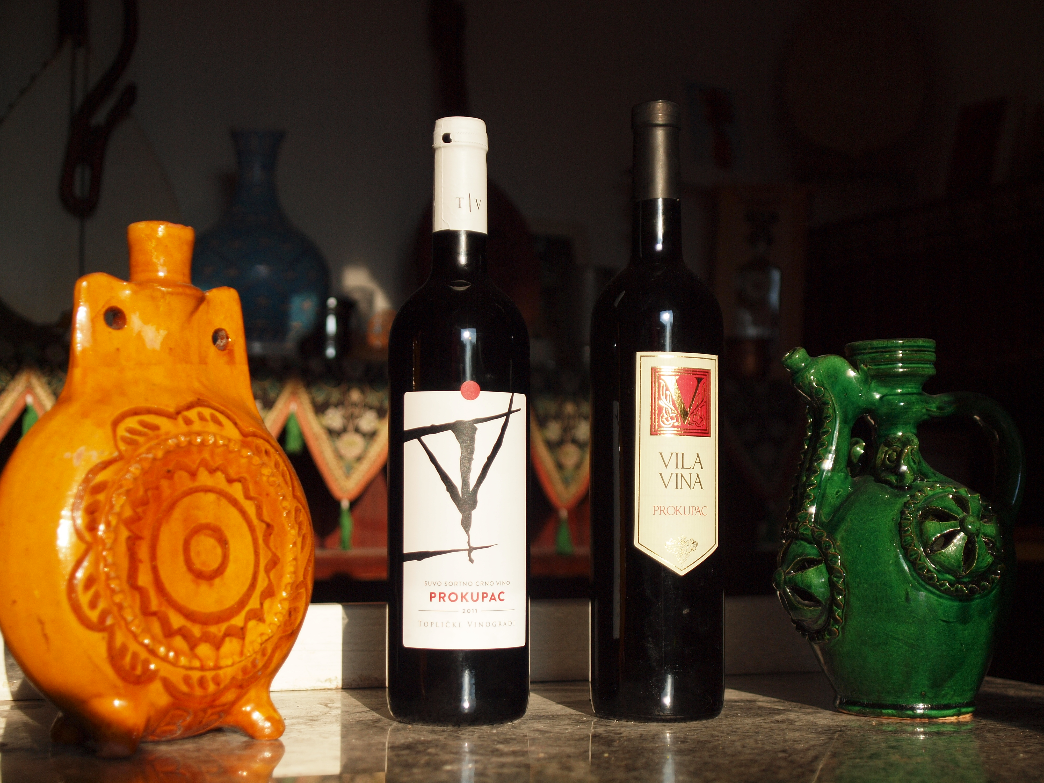 Prokupac - vila vina vinarije Milosavljevic Pocekovina - Prokupac Toplicki vinogradi Gojinovac Prokuplje